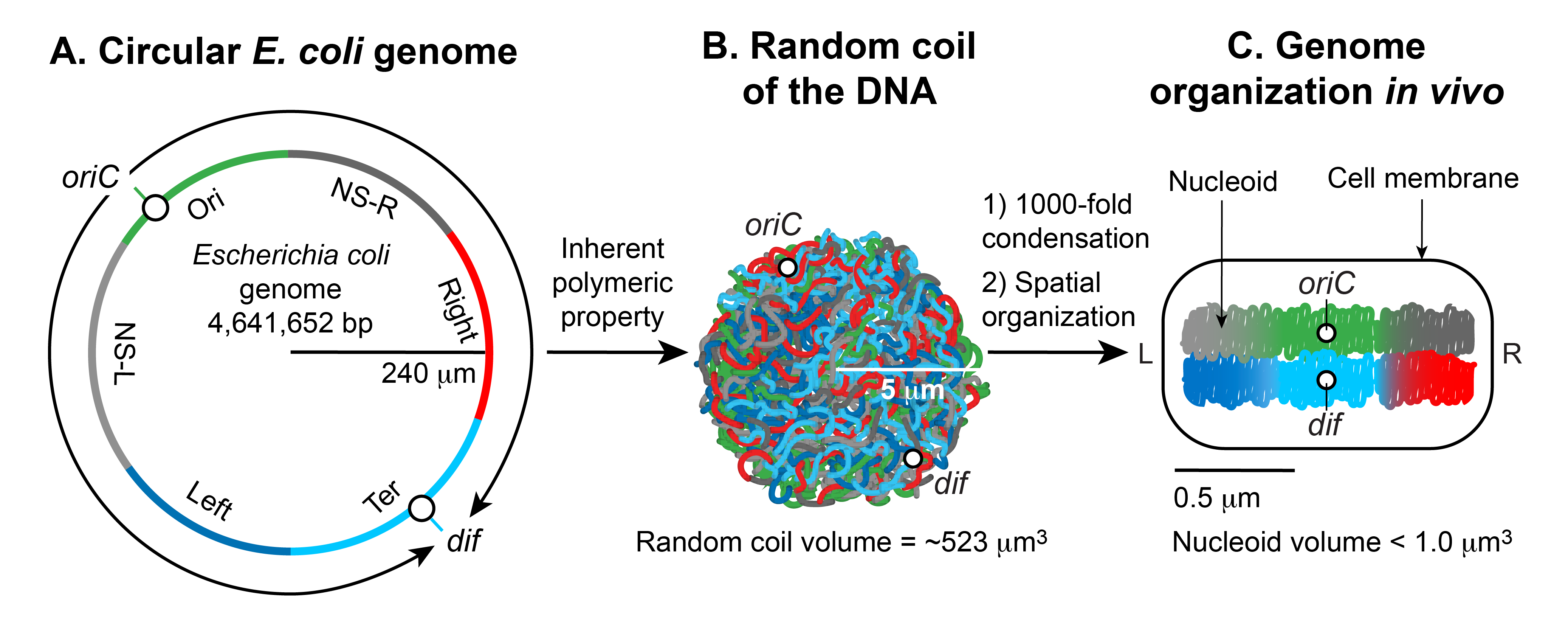 Formation of the Escherichia coli nucleoid A. An illustration of an open conformation of the circular genome of Escherichia coli. Arrows represent bi-directional DNA replication. The genetic position of the origin of bi-directional DNA replication (oriC) and the site of chromosome decatenation (dif) in the replication termination region (ter) are marked. Colors represent specific segments of DNA as discussed in C. B. An illustration of a random coil form adopted by the pure circular DNA of Escherichia coli at thermal equilibrium without supercoils and additional stabilizing factors.[5][6] C. A cartoon of the chromosome of a newly born Escherichia coli cell. The genomic DNA is not only condensed by 1000-fold compared to its pure random coil form but is also spatially organized. oriC and dif are localized in the mid-cell, and specific regions of the DNA indicated by colors in A organize into spatially distinct domains. Six spatial domains have been identified in E. coli. Four domains (Ori, Ter, Left, and Right) are structured and two (NS-right and NS-left) are non-structured (See section 4 of the main text for details). The condensed and organized form of the DNA together with its associated proteins and RNAs is called nucleoid.